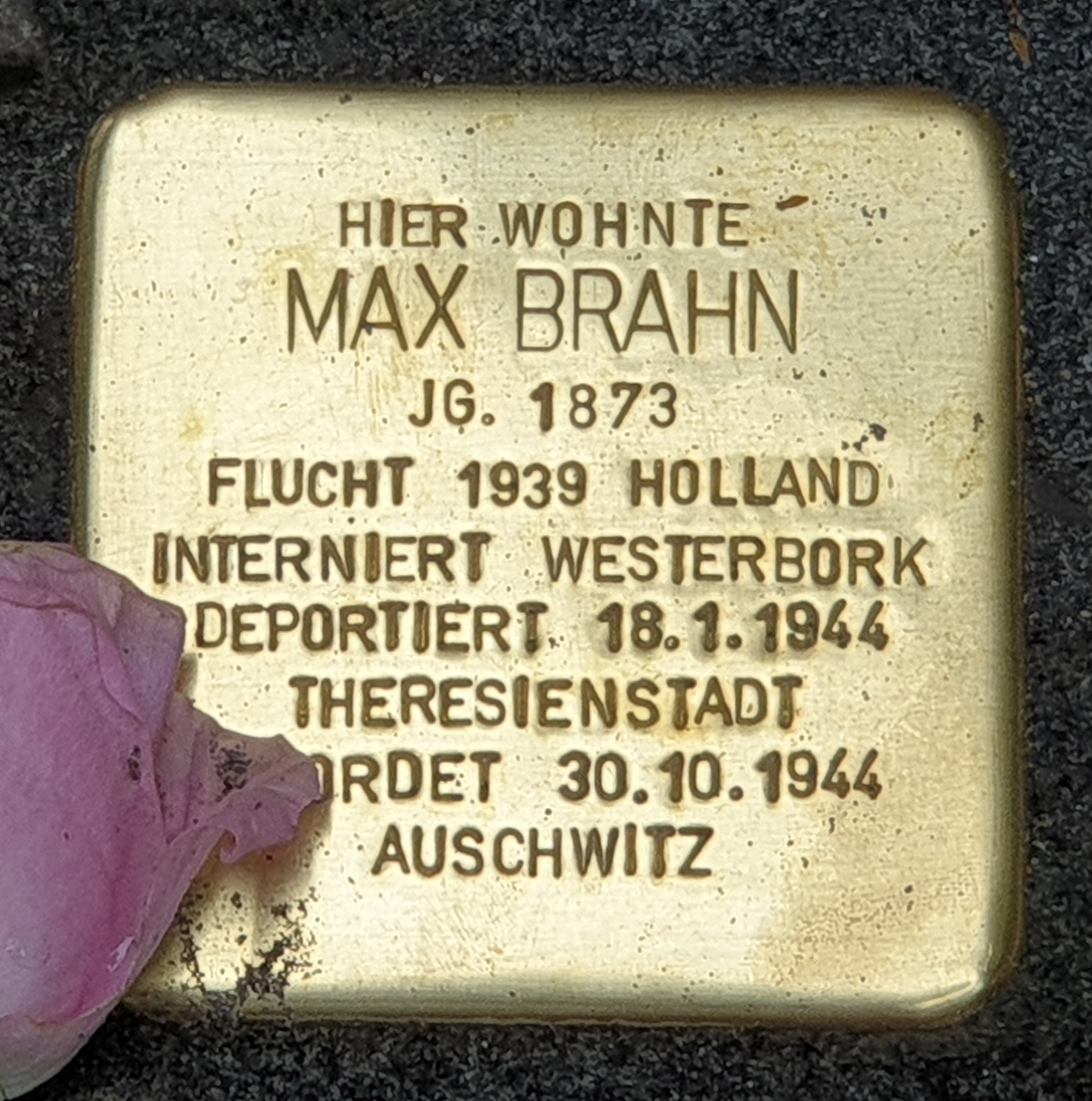 "Stolperstein" (stumbling block), Max Brahn, Pommersche Straße 15, Berlin-Wilmersdorf, Germany